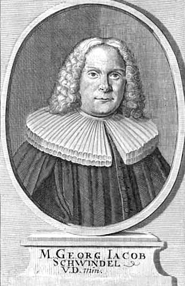 Georg Jakob Schwindel, or: Theophilus Sincerus; (1684-1752) german protestant Theologian and Historian